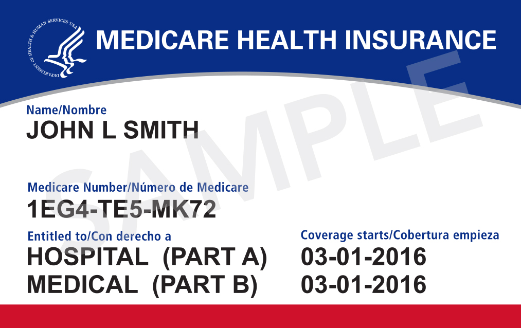 Sample for the new United States Medicare program cards that began rolling out in 2018.